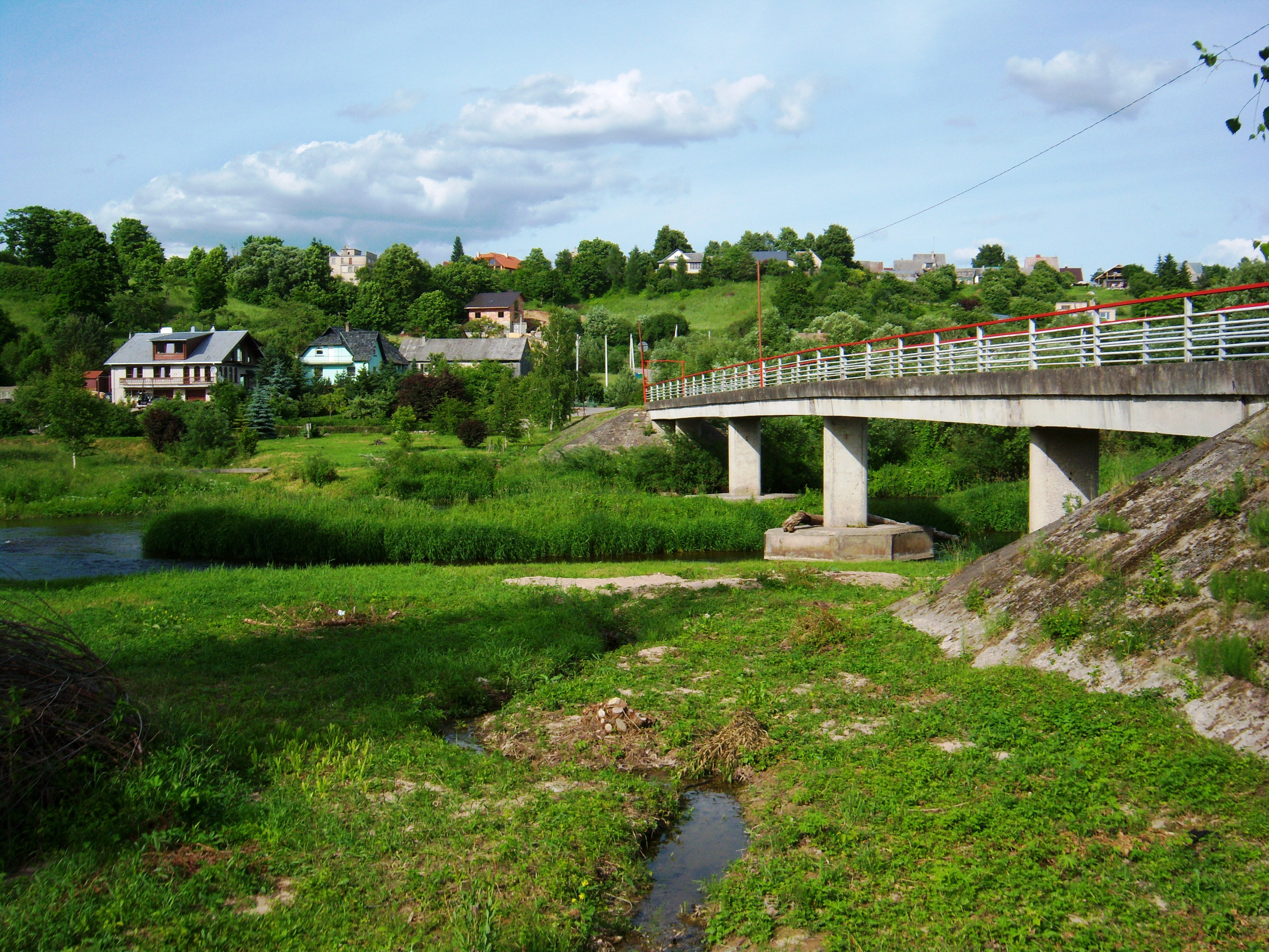 Footbridge over Dubysa River, from Uždubysys to Ariogala, Lithuania